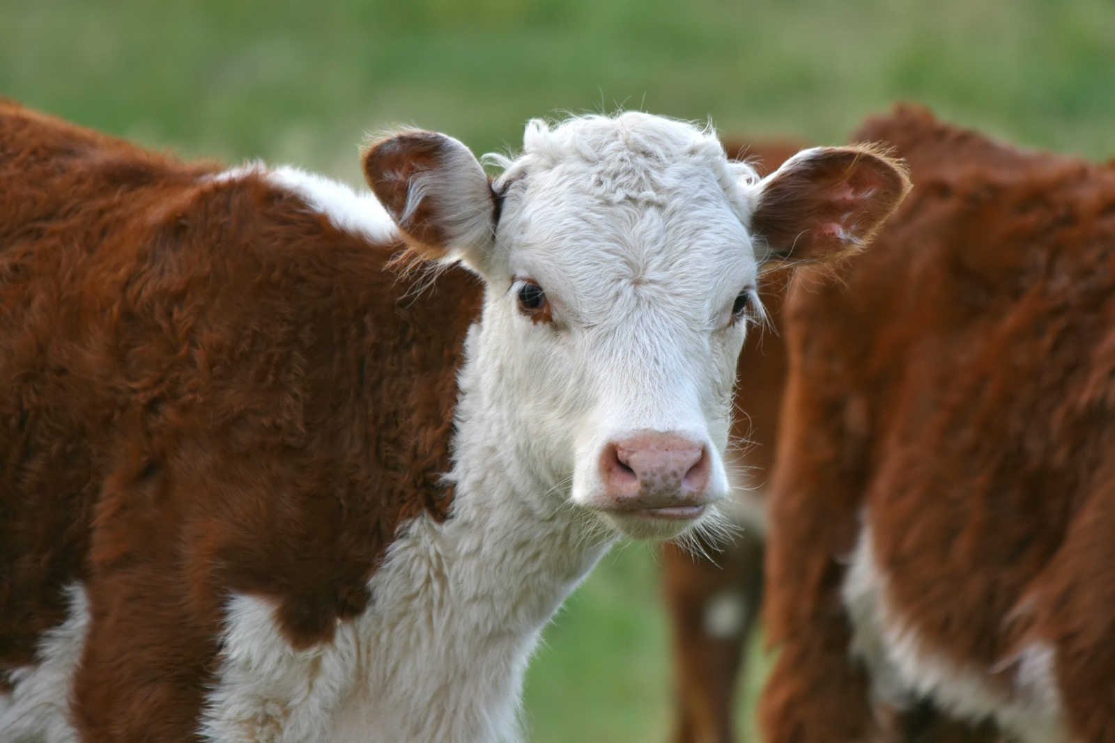 Portrait of an unmarked Hereford cattle calf (Bos taurus). Taken in Victoria, Australia.